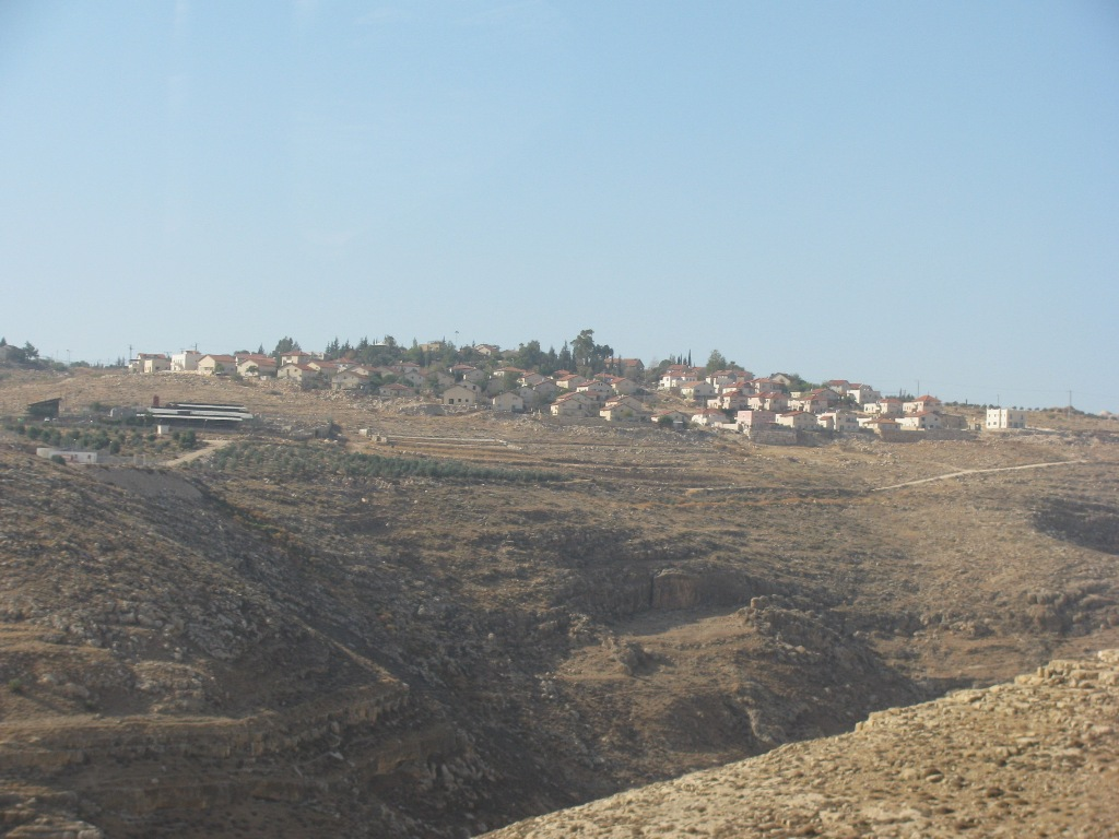 tekoa-in the northern Judean Desert Herodion